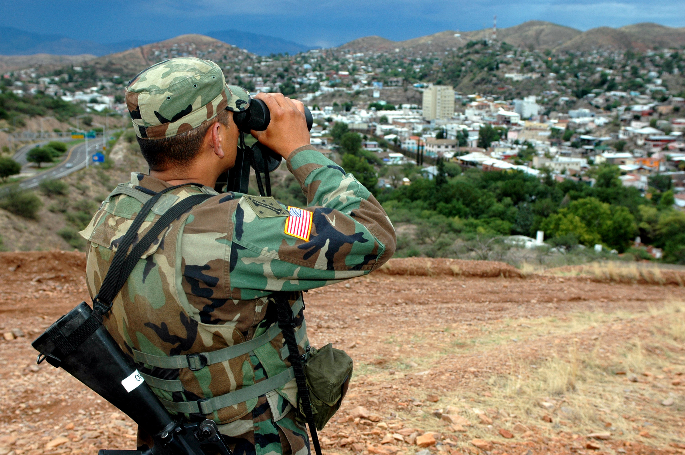 A National Guard member stands watch on the U.S. border with Mexico near Nogales, Ariz., July 19, 2006. The citizen-soldier is a member of Alpha Company, 1st Battalion, 158th Infantry Regiment, 29th Brigade Combat Team participating in Operation Jump Start, the National Guard's assistance to the U.S. Border Patrol.